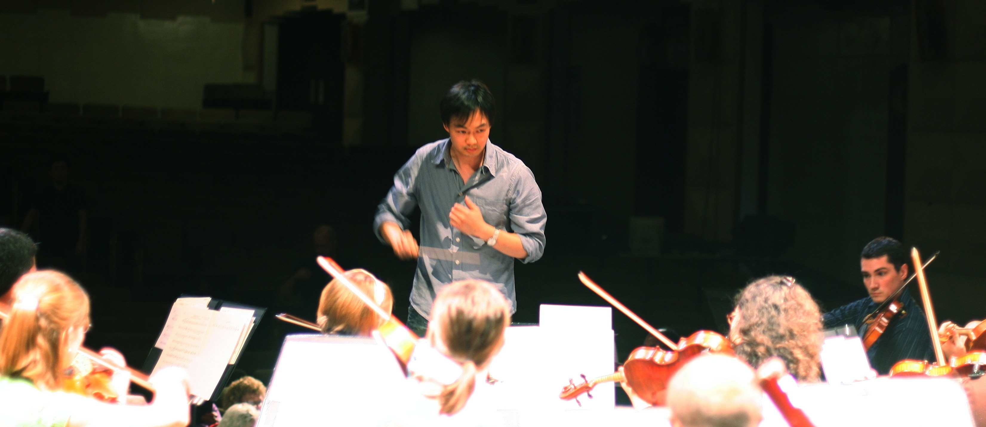 Christopher Tin rehearses the Golden State Pops Orchestra at the Warner Grand Theater, San Pedro, CA.